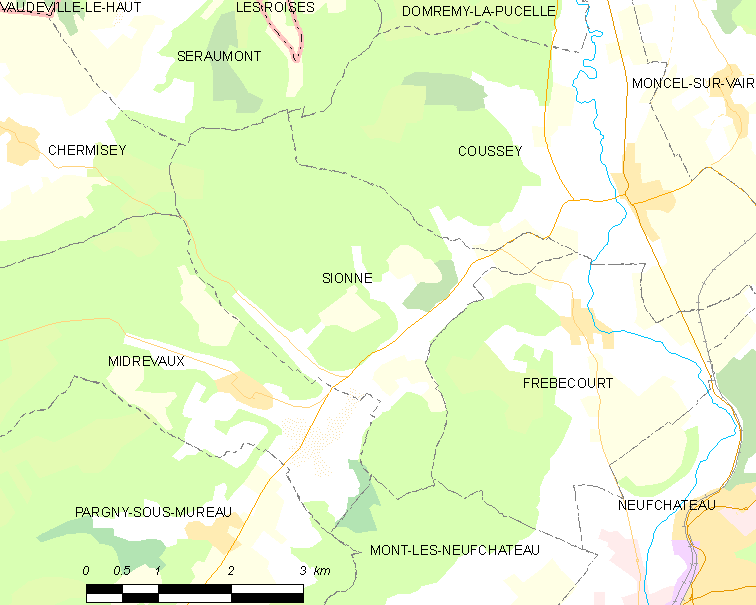 Map of French municipality Sionne